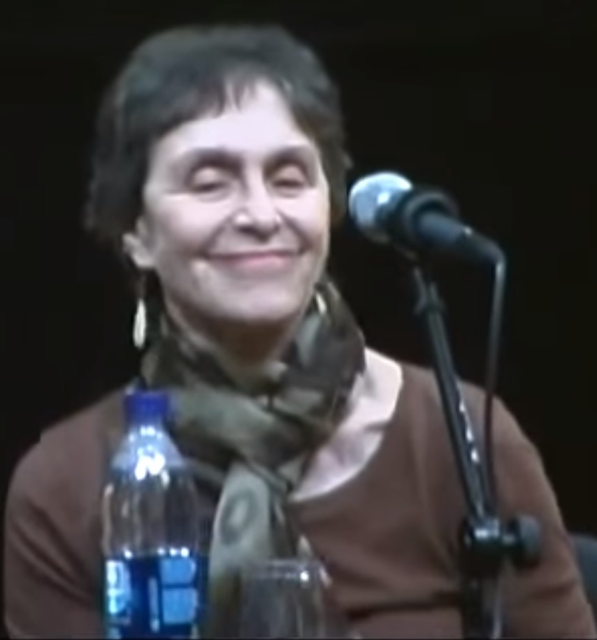 Jennifer Baumgardner and Amy Richards, authors of Manifesta: Young Women, Feminism, and the Future, lead a dynamic panel of feminists including Alix Kates Shulman, Farai Chideya, and Marisa Meltzer in a discussion of where feminism is today and where it needs to go in the twenty-first century. This event took place at the Elizabeth A. Sackler Center for Feminist Art on March 20, 2010. Video courtesy Elizabeth A. Sackler Foundation.